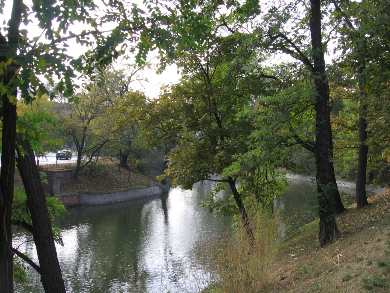 Wrocław, Poland - Podwale street and town moat near Kopernik park